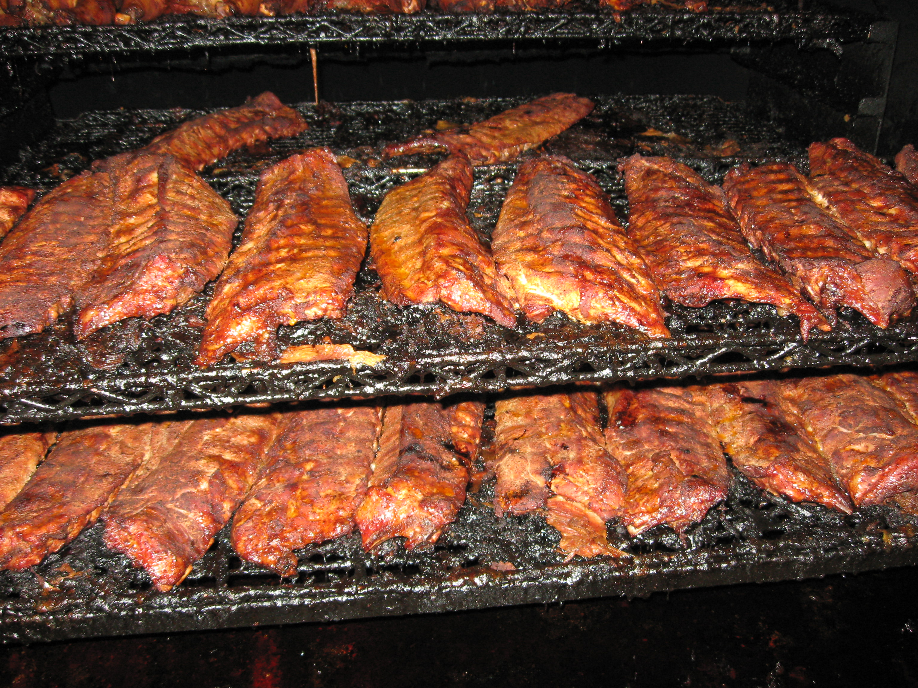 Central BBQ Cooker -- Central BBQ, Memphis, TN -- Photo by Rien T. Fertel for the SFA -- Summer 2008